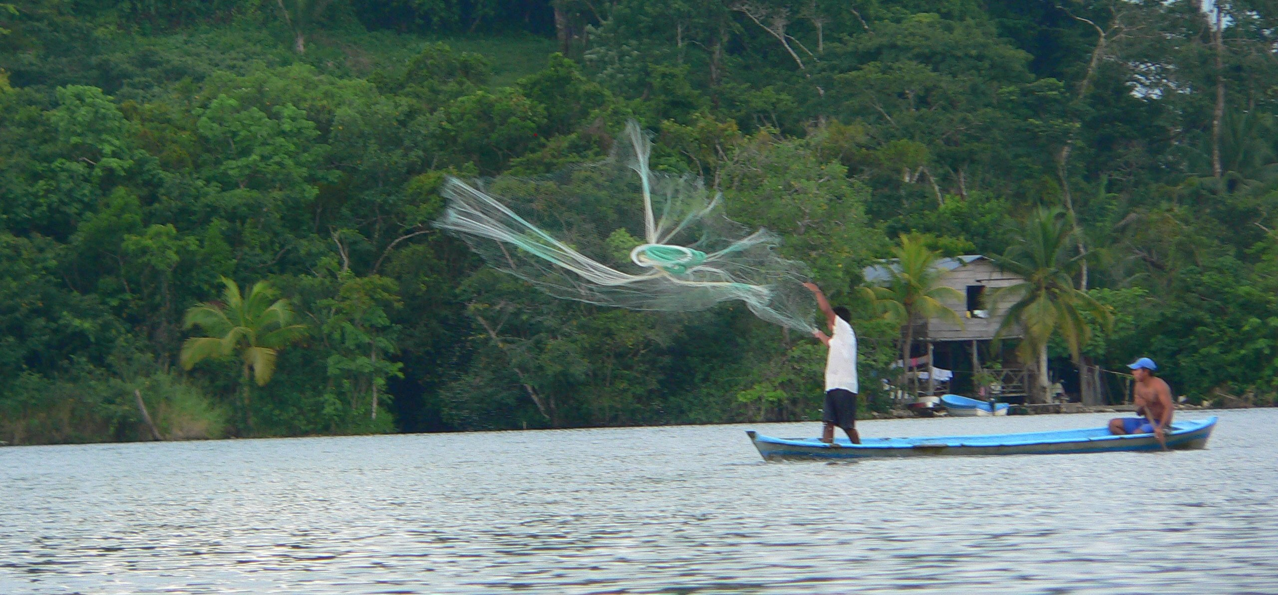 Fisher casting net on Rio Dulce, Guatemala.